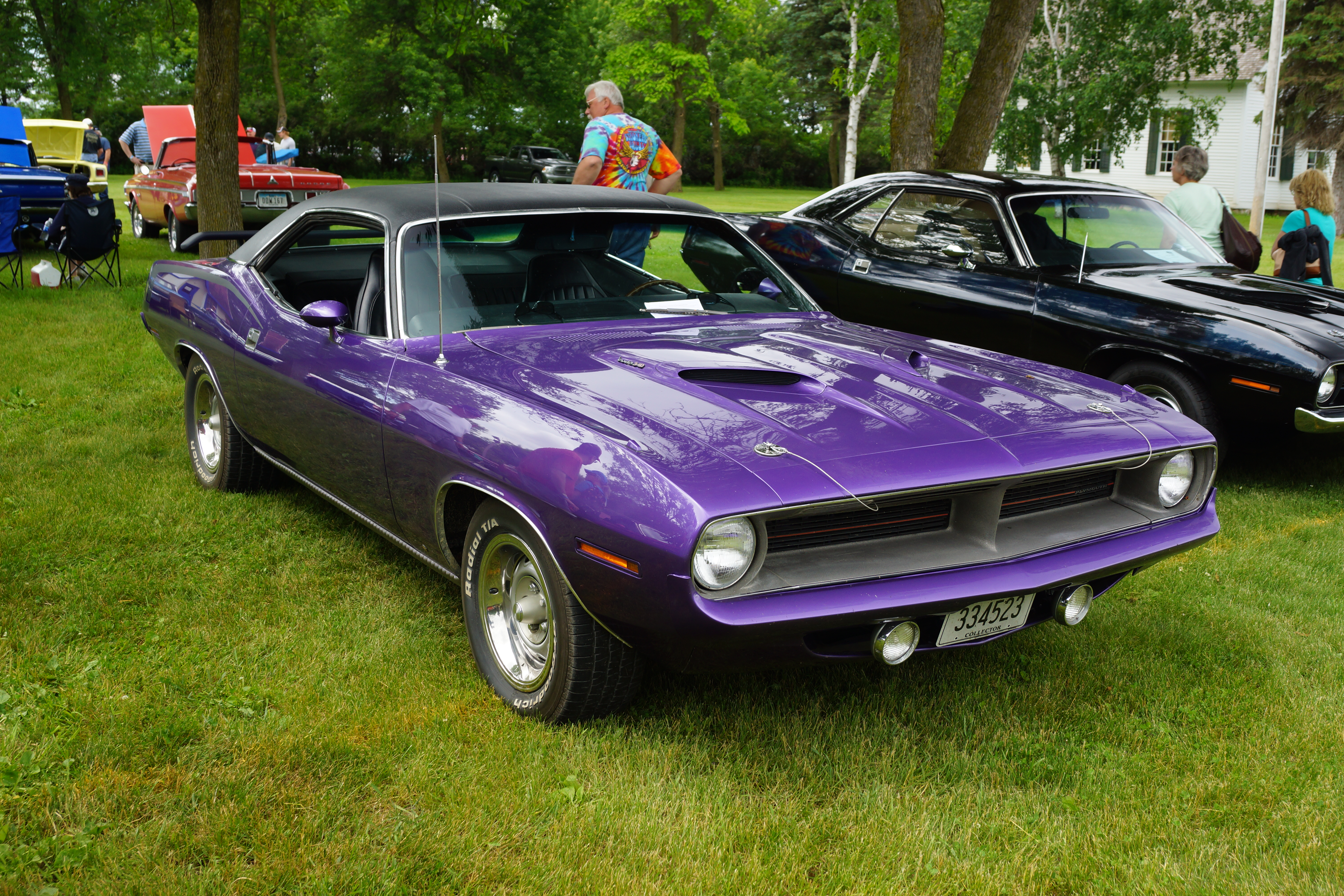 Midwest Mopars in the Park National Car Show & Swap Meet Dakota County Fairgrounds Farmington, Minntesota June 4 & 5, 2016 Click here for more car pictures at my Flickr site.